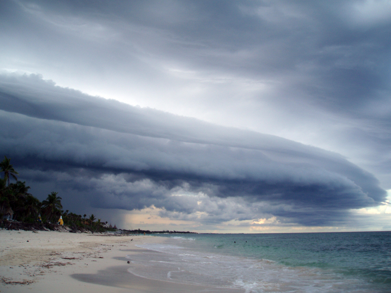 Cloud over the Yucatan east coast (Mexico)